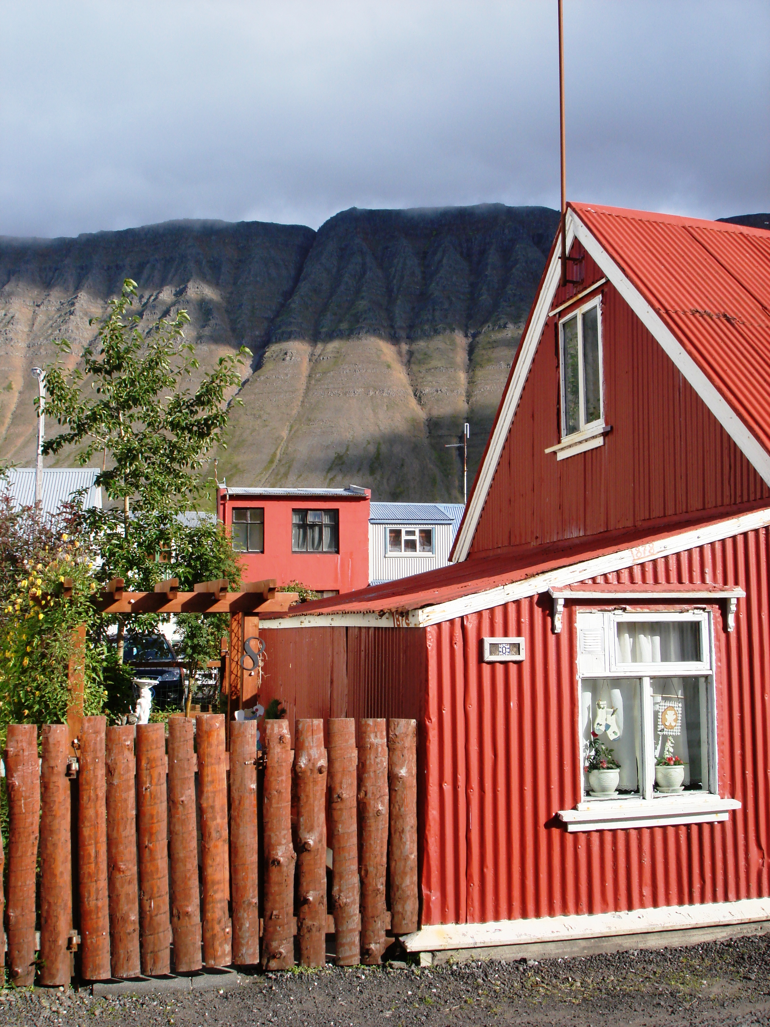 House in Ísafjörður